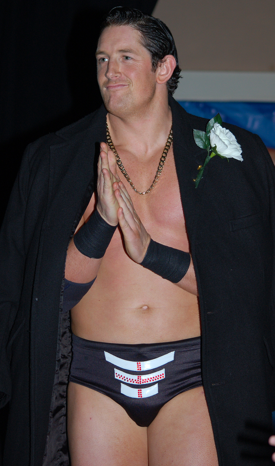 Photo I took of Wade Barrett in Ft. Myers FL on 01/15/2010